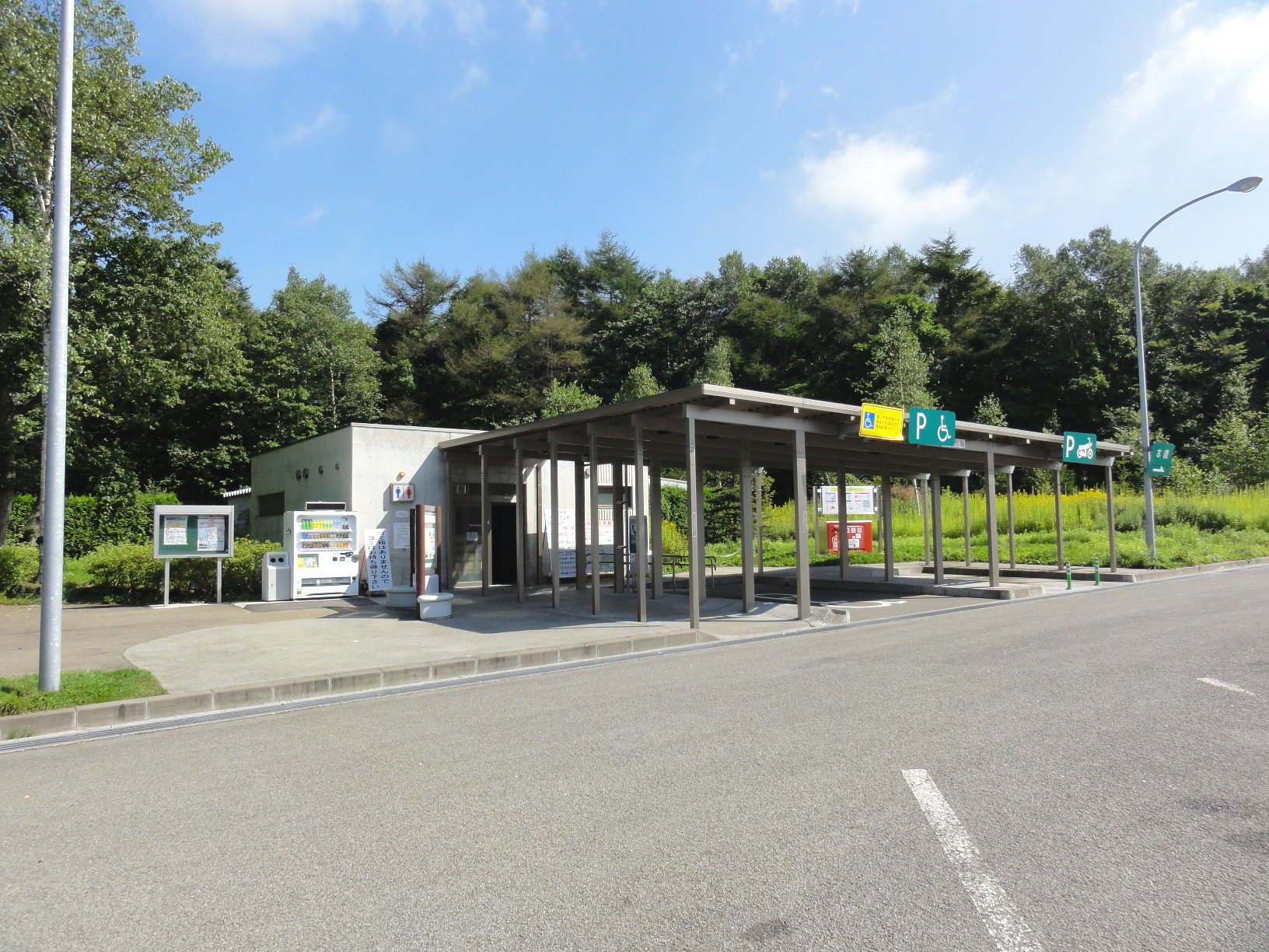 Dōtō Expressway Kiusu Parking Area